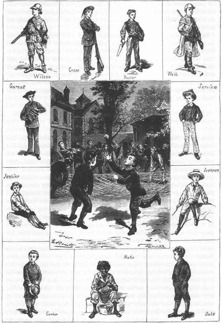 An illustration from Jules Verne's novel "Two Years' Vacation" (1886-87) drawn by Léon Benett.